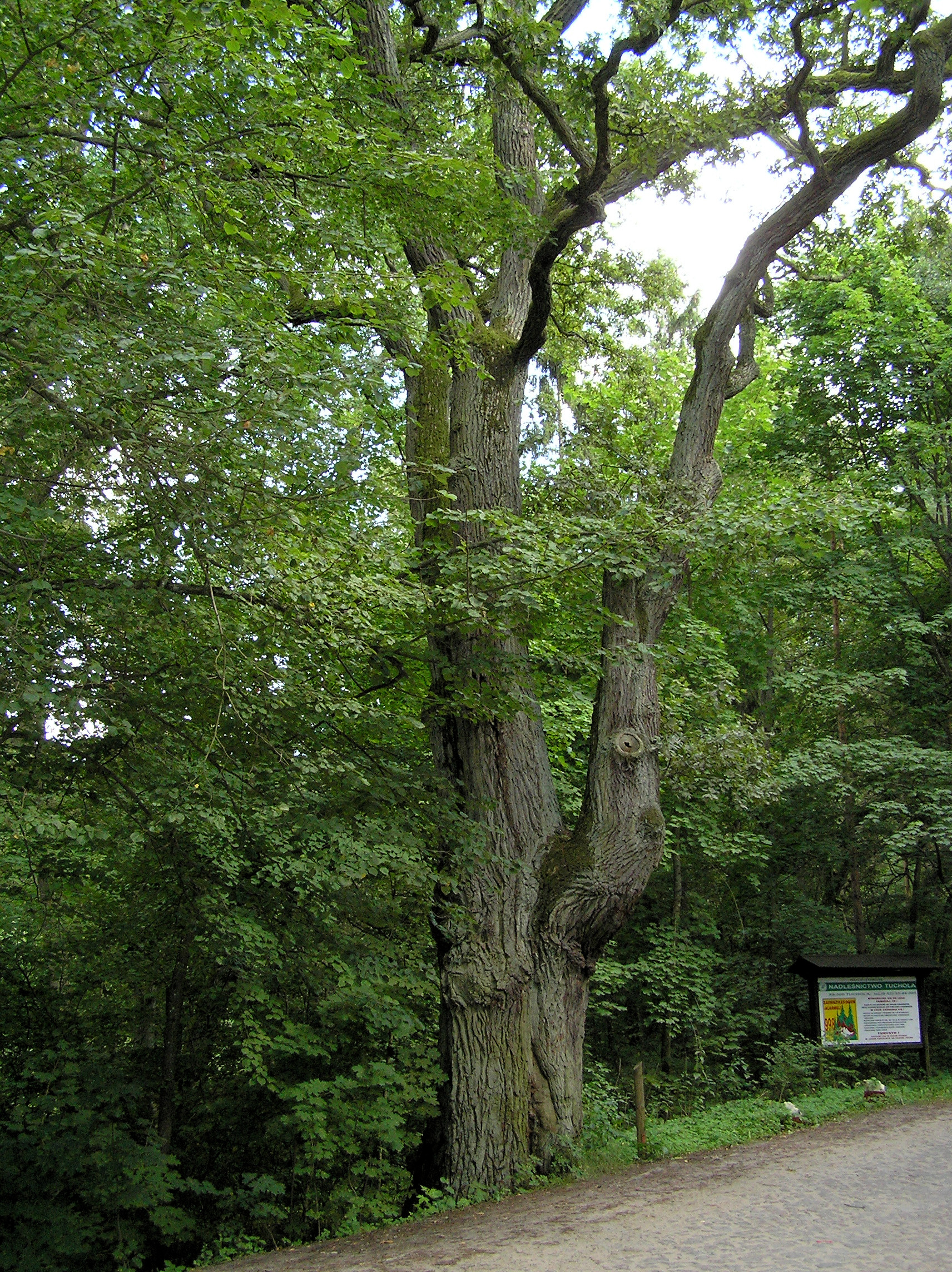 Świt - pomnikowy dąb.